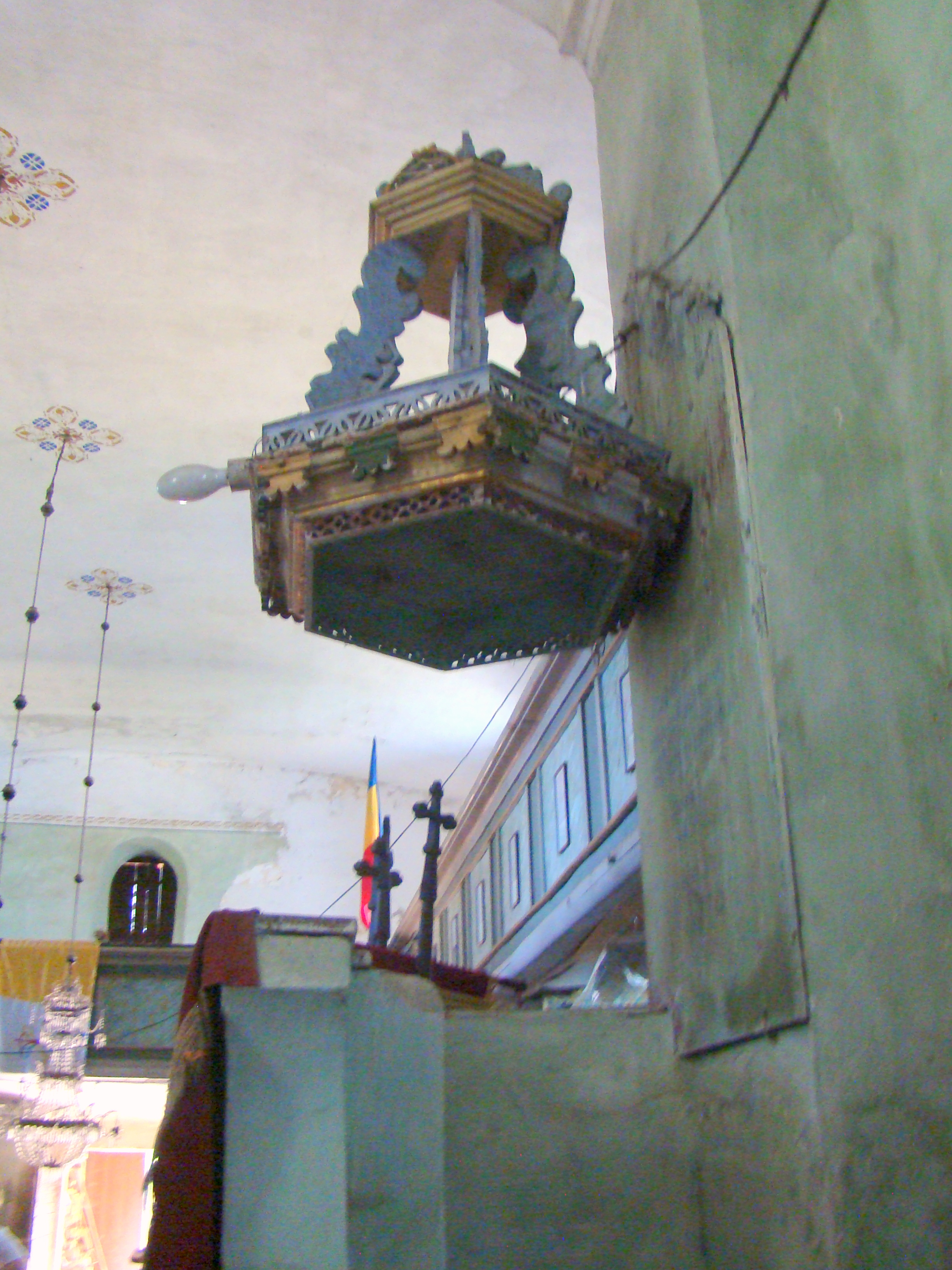 Lutheran church in Posmuș, Bistrița-Năsăud county, Romania